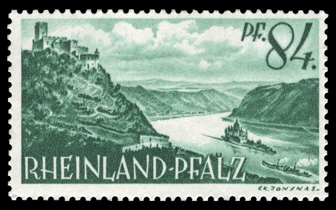 French occupied zone, Rhineland-Palatinate, persons and views of Rhineland-Palatinate (I) Ausgabepreis: 84 Pfennig First Day of Issue / Erstausgabetag: August 1947 Michel-Katalog-Nr: 14 (Französische Besetzungszone, Rheinland-Pfalz)